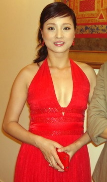 My Duyen